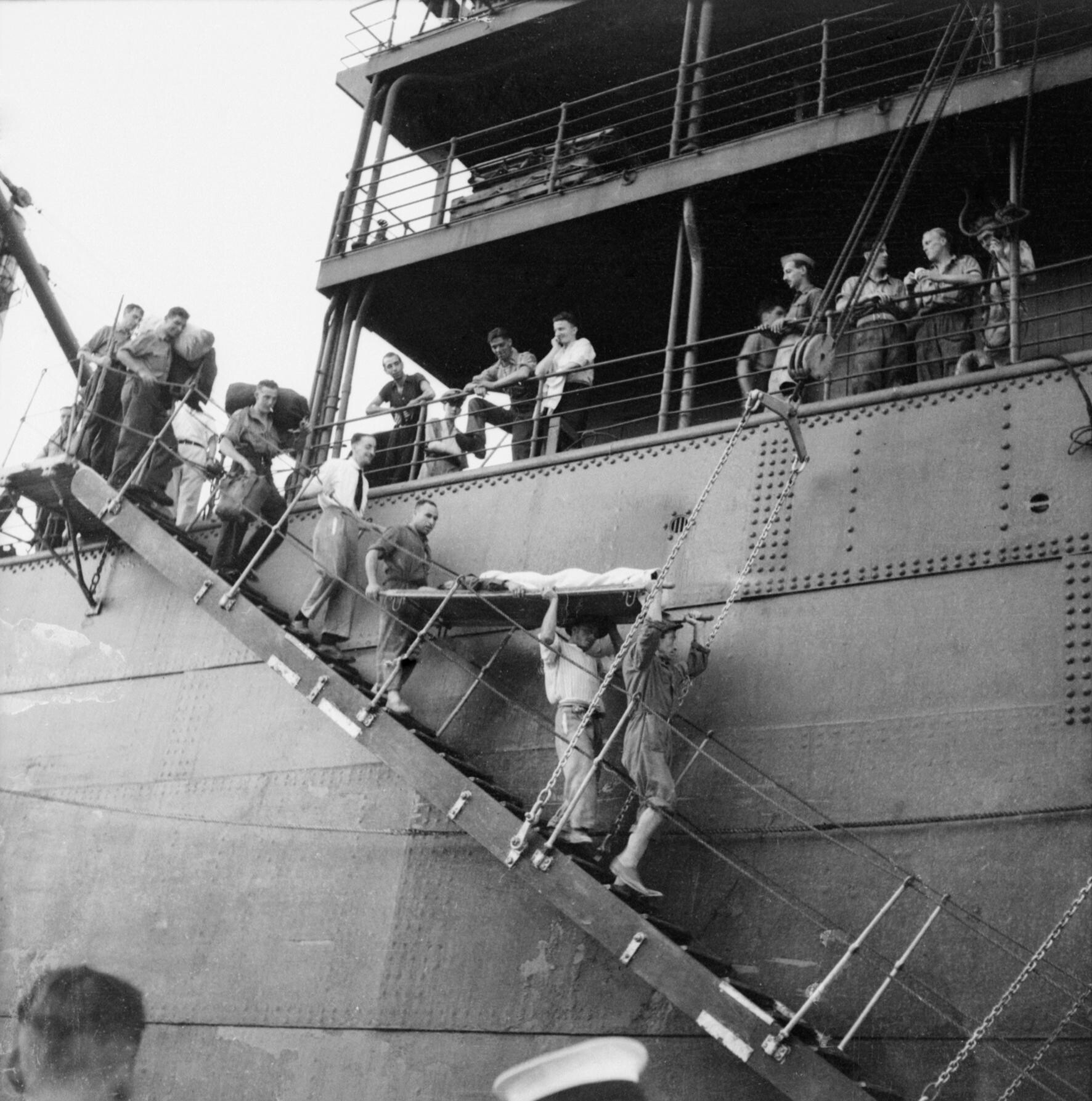 Operation Pedestal, August 1942: A wounded seaman is carried off the Melbourne Star at Malta on a stretcher.